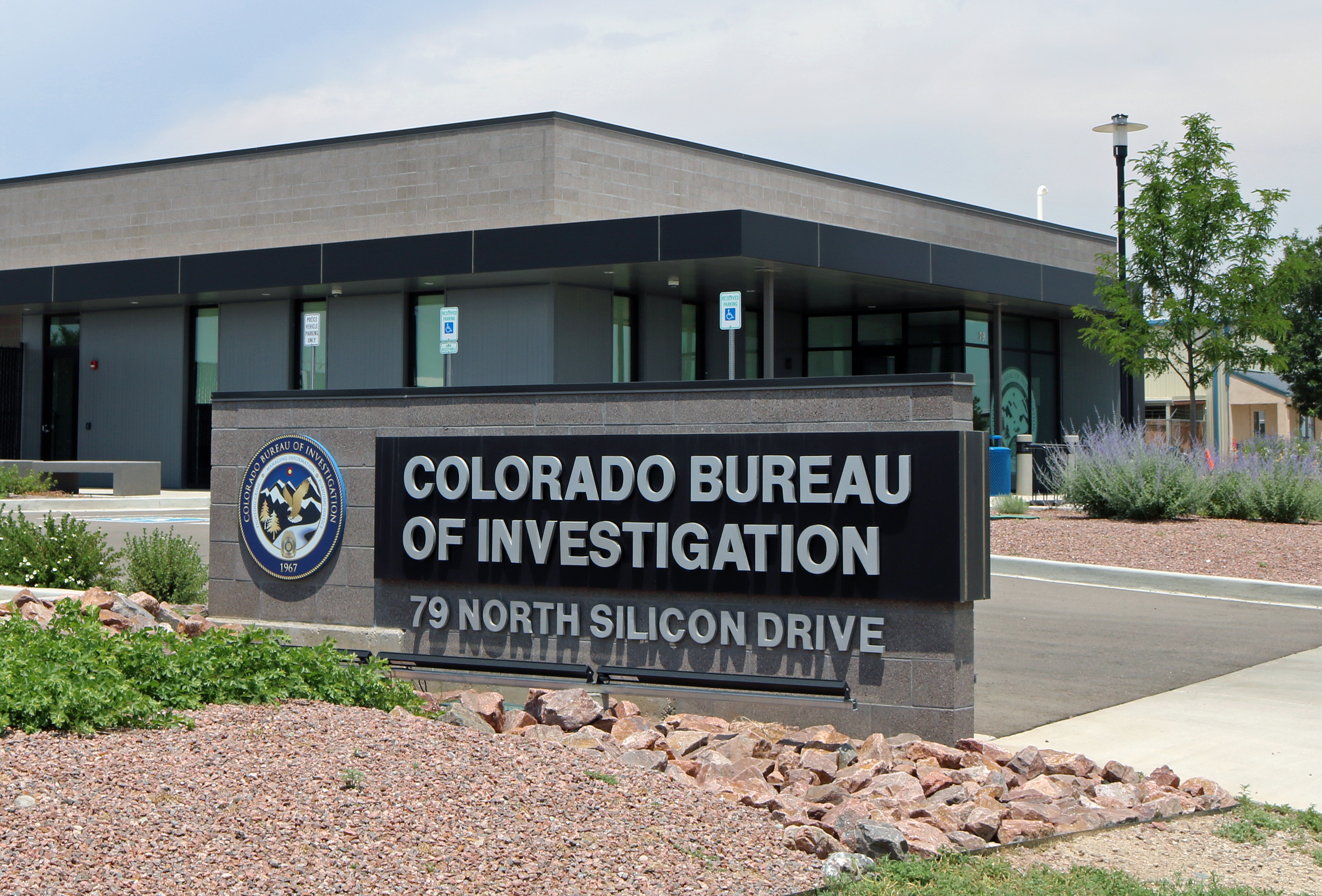 The Colorado Bureau of Investigation (CBI) office at 79 North Silicon Drive in Pueblo West, Colorado.